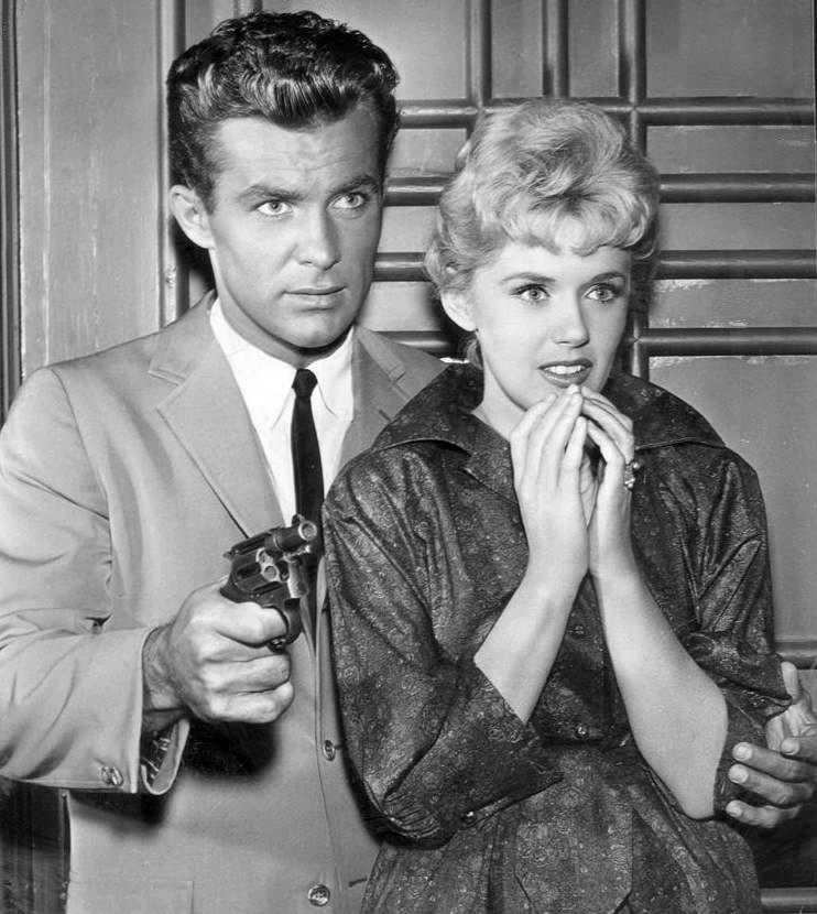 Publicity photo of Robert Conrad and Connie Stevens from the television program Hawaiian Eye.